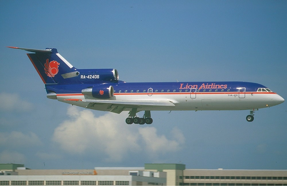 Lion Airlines Yakovlev Yak-42 landing at Singapore Changi Airport